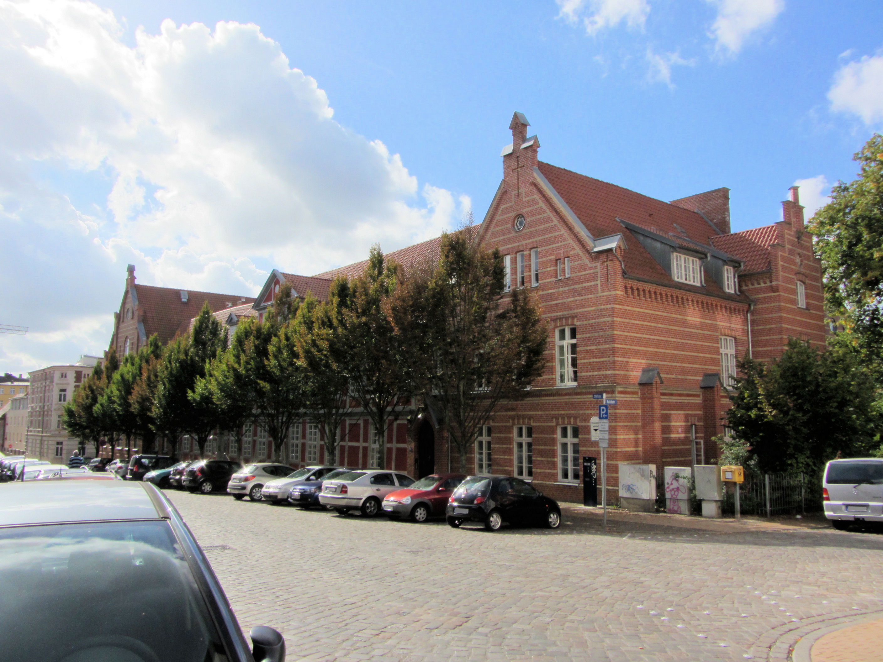 Augustenstift in Schwerin, Mecklenburg-Vorpommern, Germany